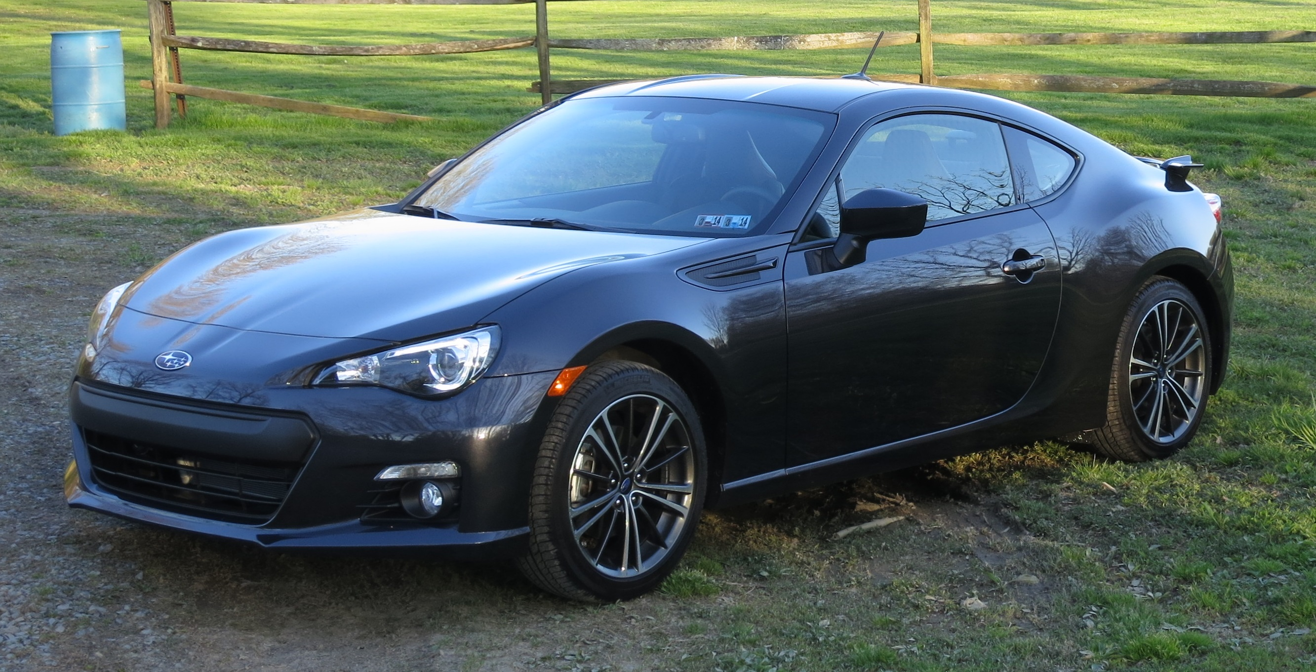 A side view of a Dark Gray Metalliac 2013 Subaru BRZ Limited. Parking lights are turned on.